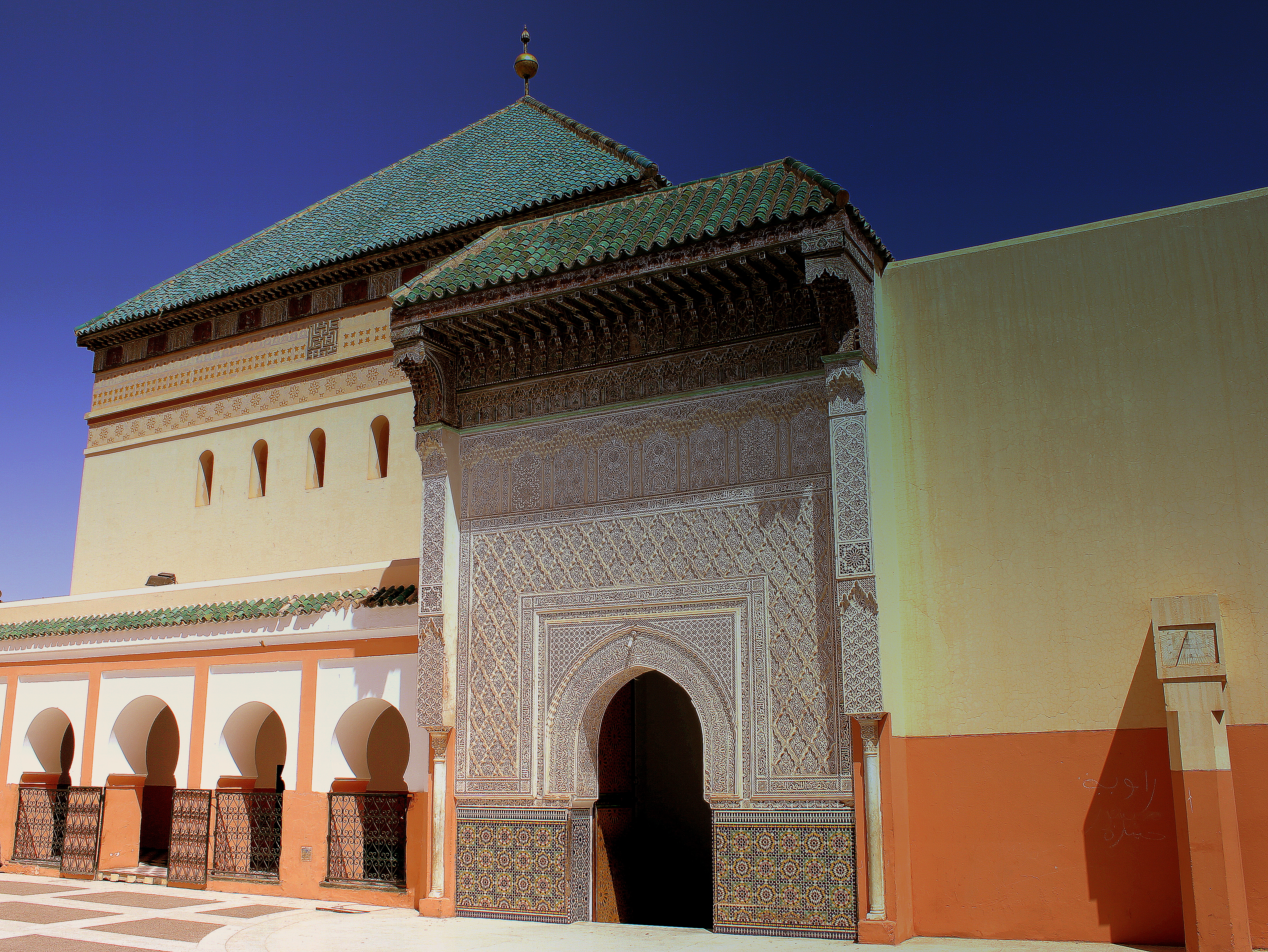 CONTINENTAL HOTEL TANGER MOROCCO APRIL 2013